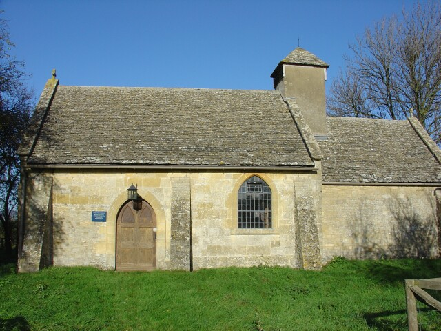 Little Washbourne Church. Little Washbourne Church, now redundant and inhabited by sheep